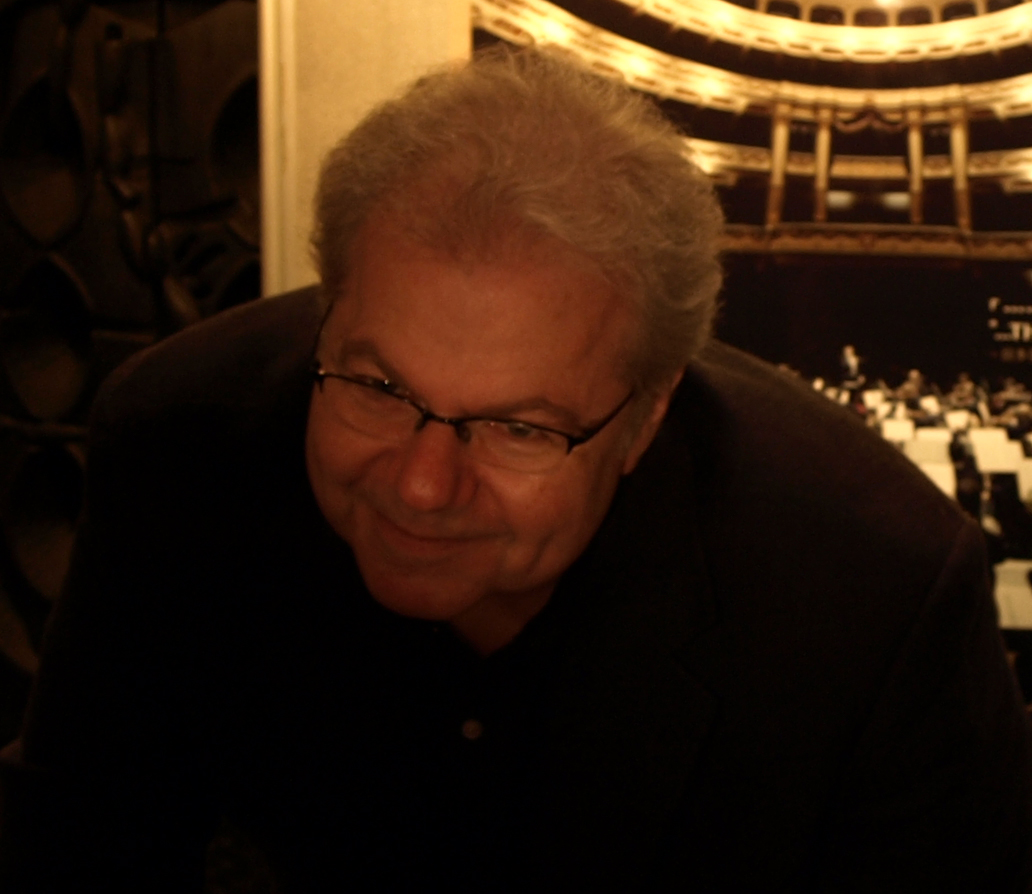 Emanuel Ax signing autographs for fans after his concert in Hong Kong Cultural Center